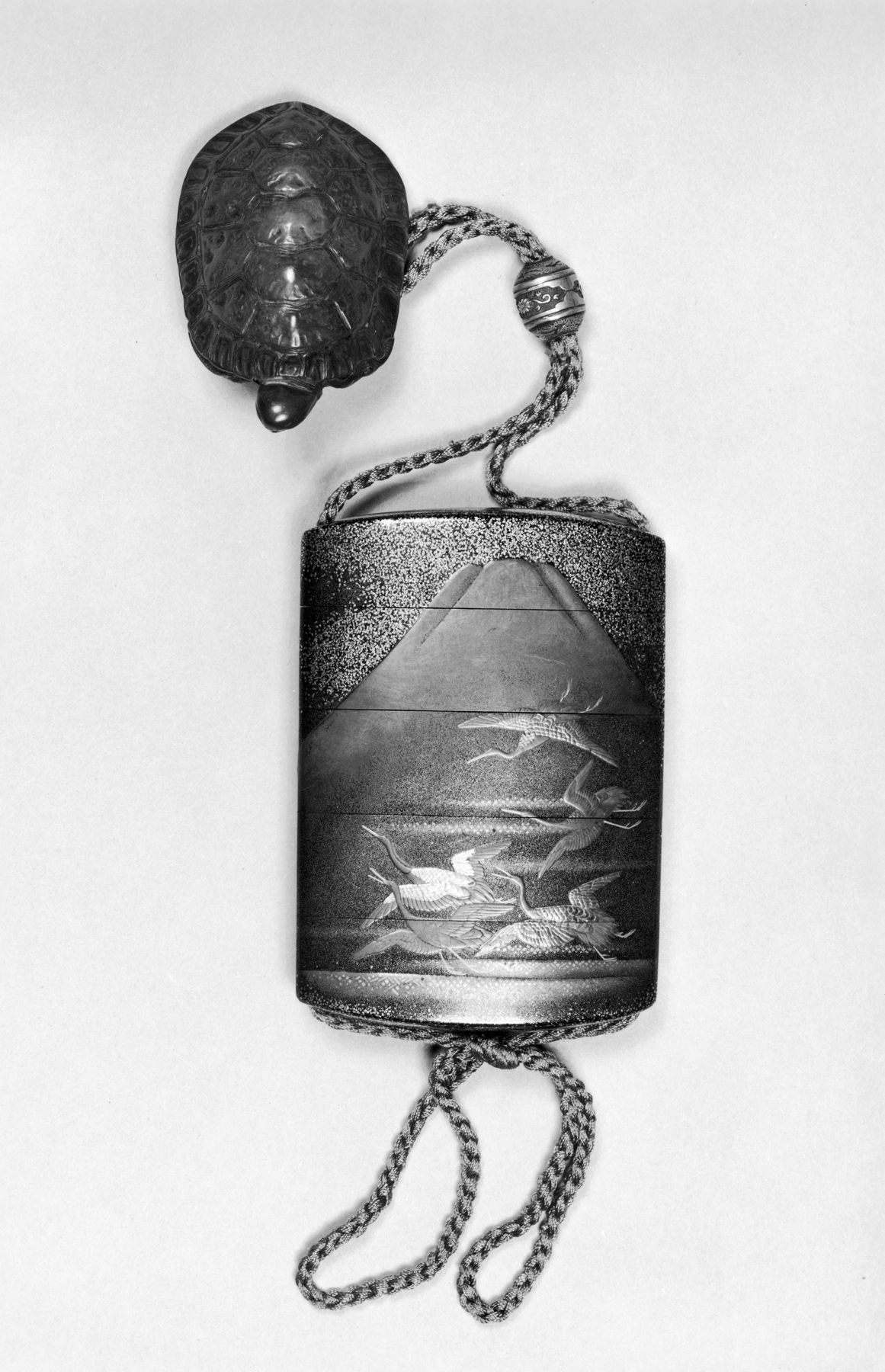 A standard gold lacquer ground four case inro. A design with four cranes flying on one side and five on the other in front of Mount Fuji. Design in "hiramakie" on the mountain and "okibirame" in gold and silver on the birds and Mt. Fuji all on a background of "mura-nashiji." The interior in "nashiji" and "fundame." The rims in "kinji." Inscribed in gold lacquer on the bottom of the lower case. Together with a carved wood netsuke in the form of a tortoise.